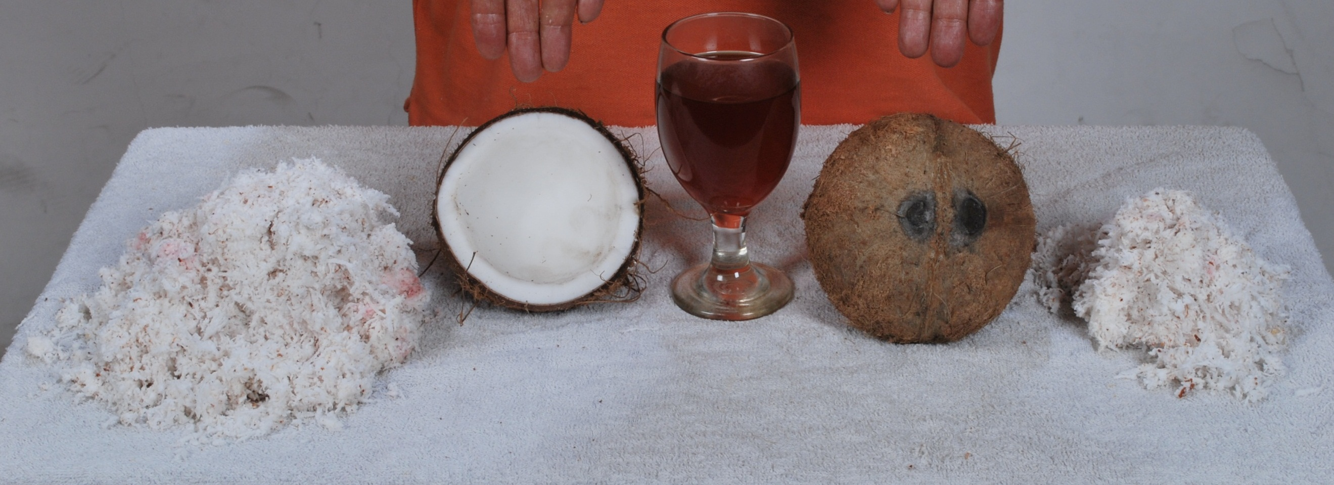 Fresh mature grated coconut meat, opened coconut, coconut healing oil, 2 "mata" (eyes) rarest coconut and Fresh mature grated coconut meat, respectively (l-rt). About two, more or less, 2 "mata" (eyes) coconuts appear from a 7,000 pieces harvest of coconuts in a 1 hectare farm. The rest are ordinary 3 "mata" coconuts.